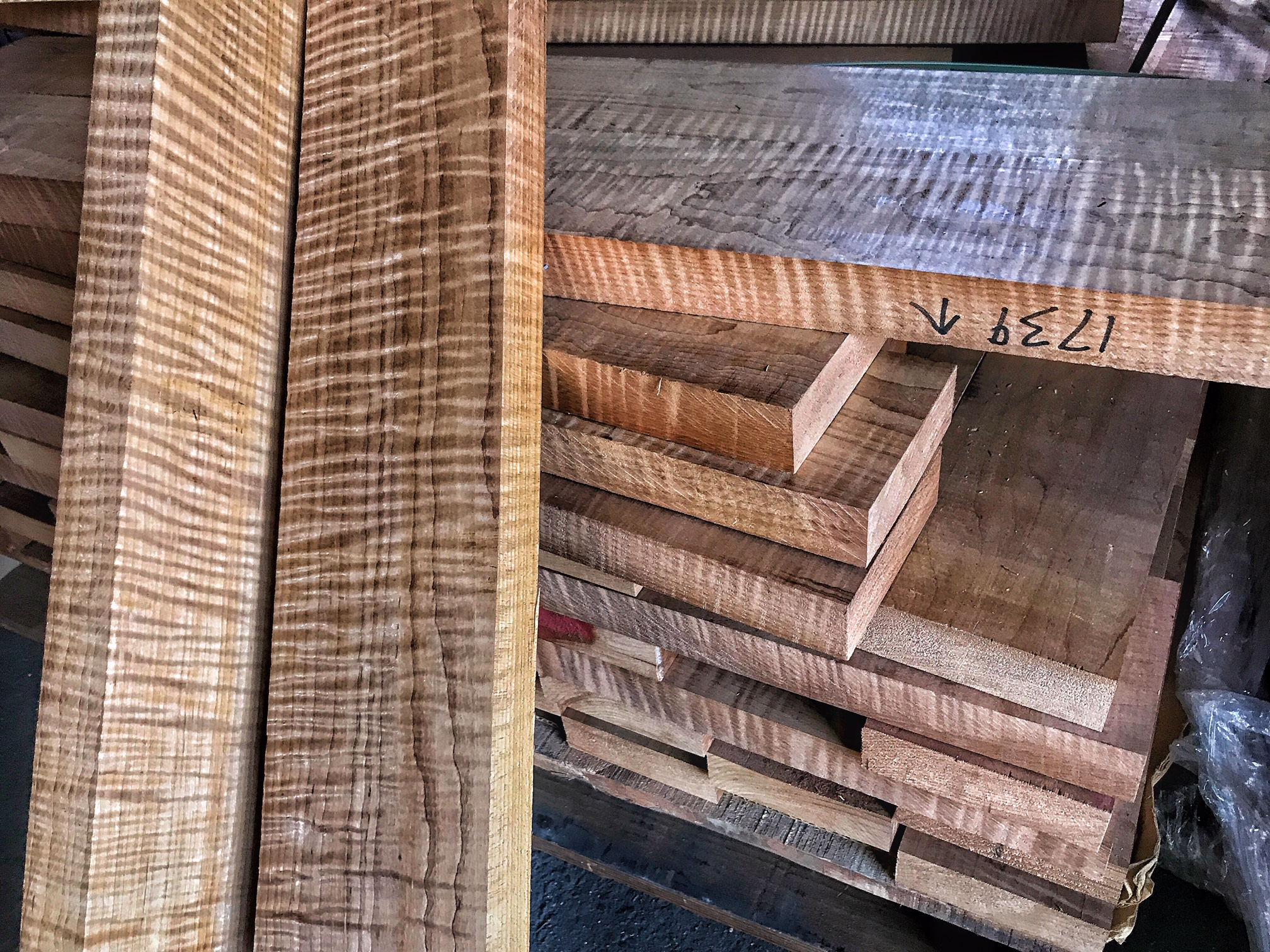 This is what North American figured maple looks like after it has been tempered in a kiln and cut into guitar neck blank sizes, prior to shaping.